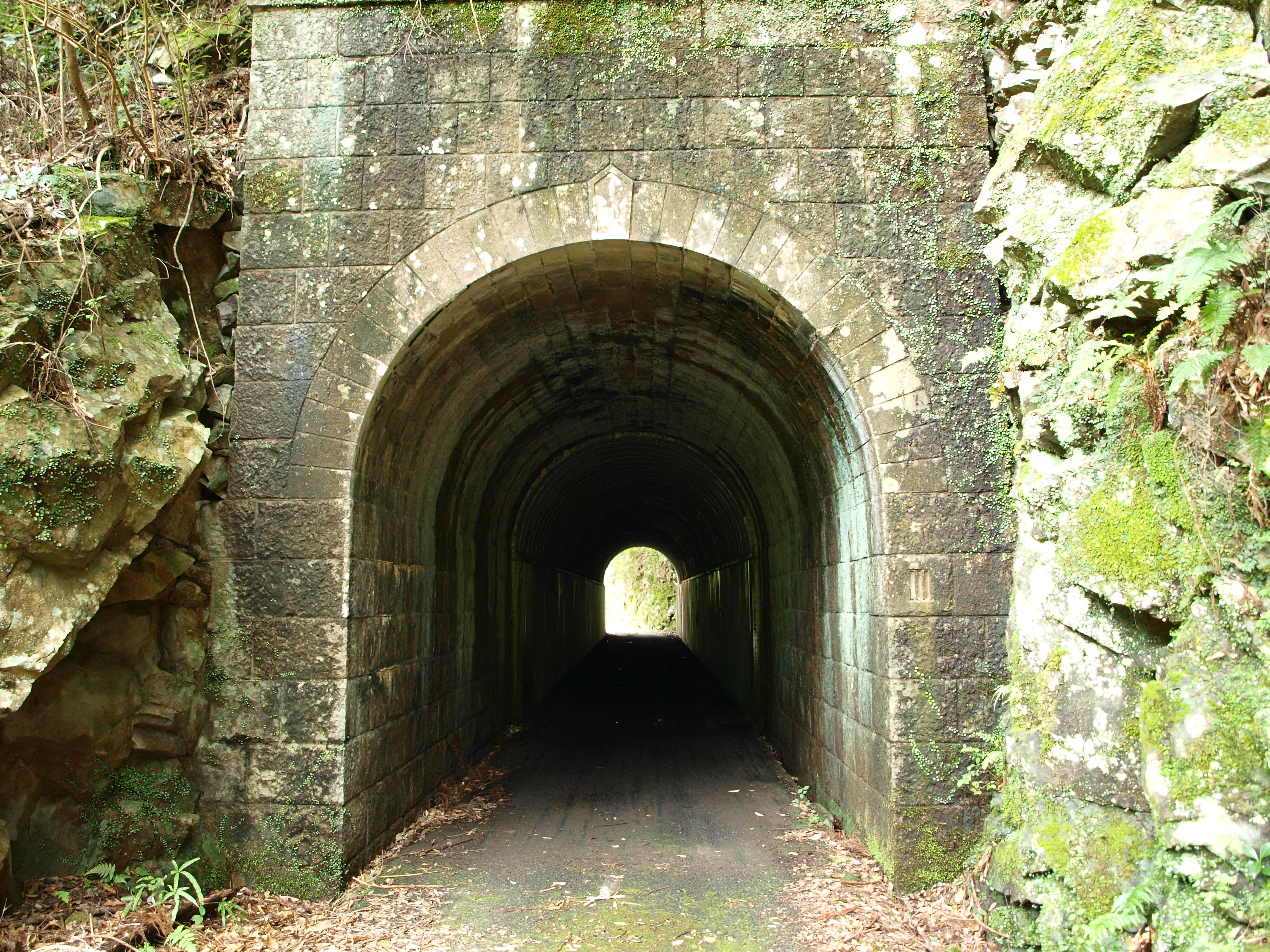 Oomukae tunnel of Yanase forest railway.